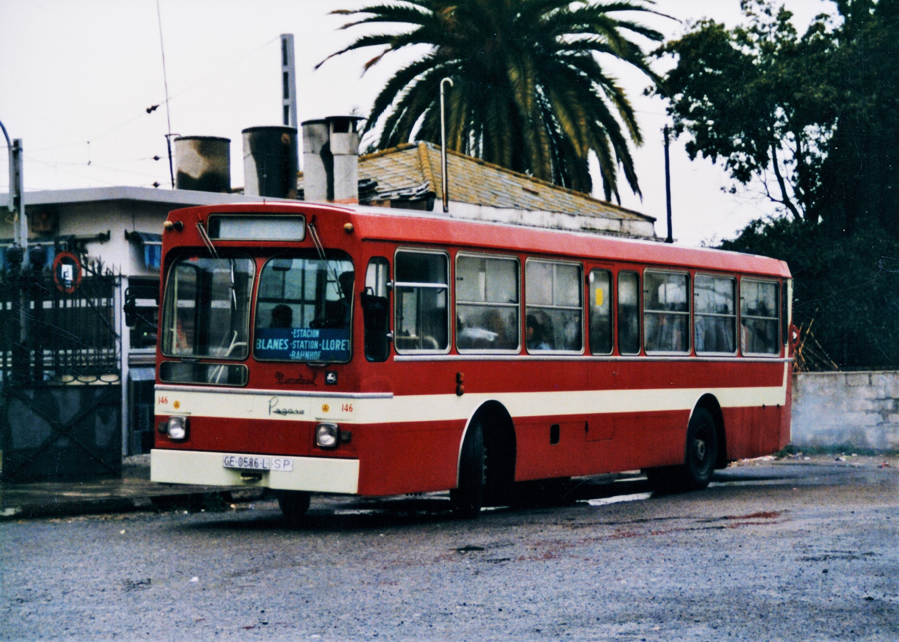 Bus number 146 of the Pujol i Pujol company, a Pegaso 6050, at the Blanes railway station, serving the suburban line to Lloret de Mar.